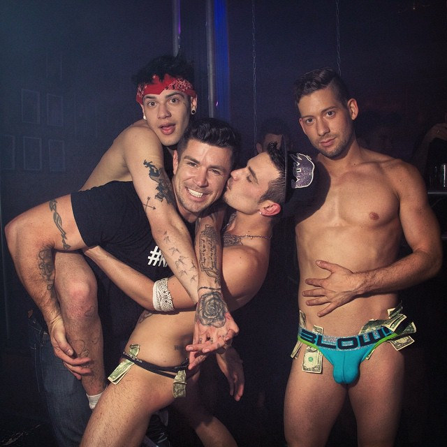 All aboard! #grabbys @bar_charlieschi